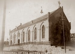 The Cathedral of the Sacred Hearts of Jesus and Mary Catholic cathedral in Helena, Montana until the present Cathedral of Saint Helena was first used in 1914.